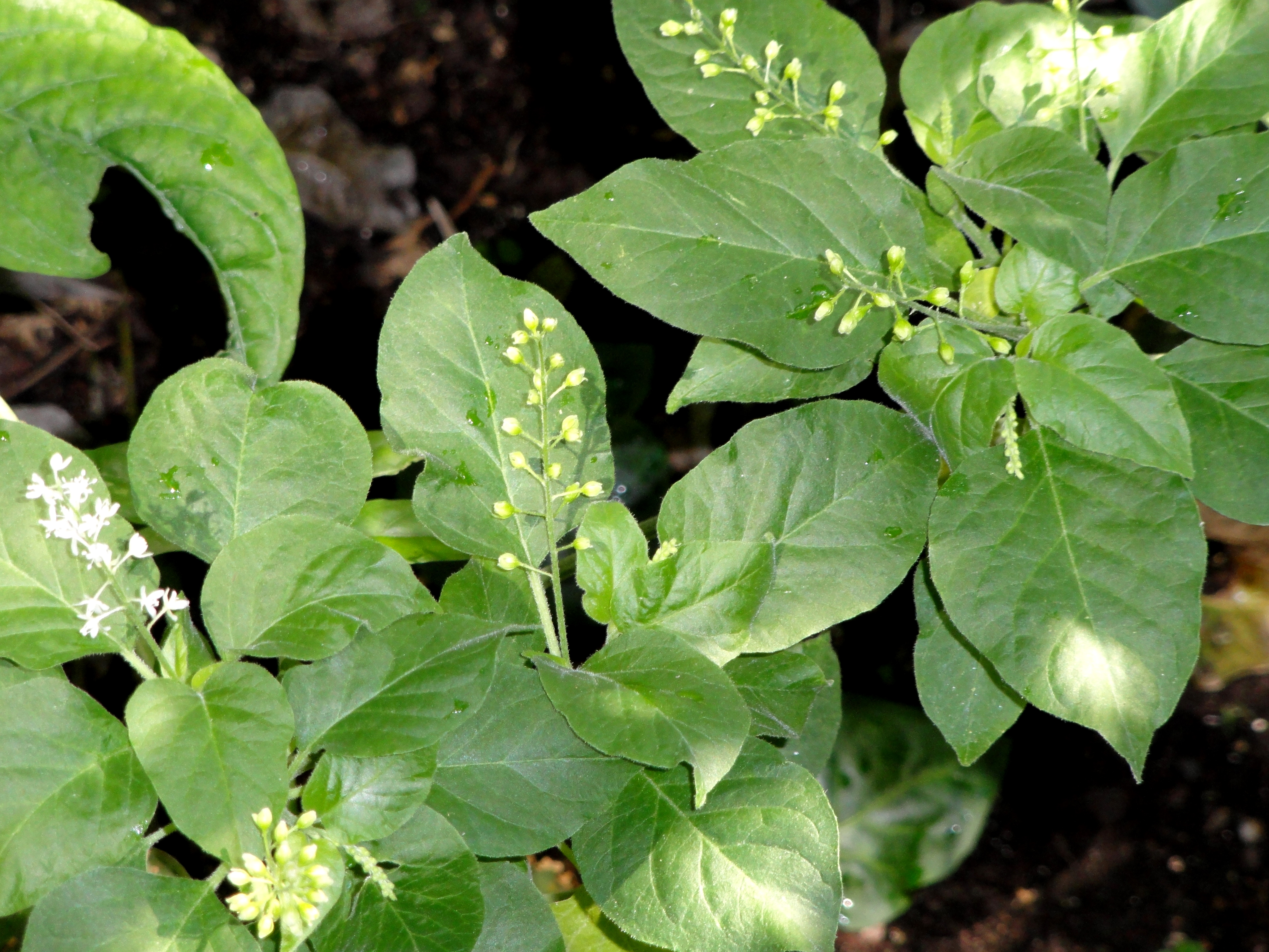 Unidentified specimen in the Jardin Botanique de Lyon, Parc de la Tête d'Or, Lyon, France. Not Cuphea micropetala.